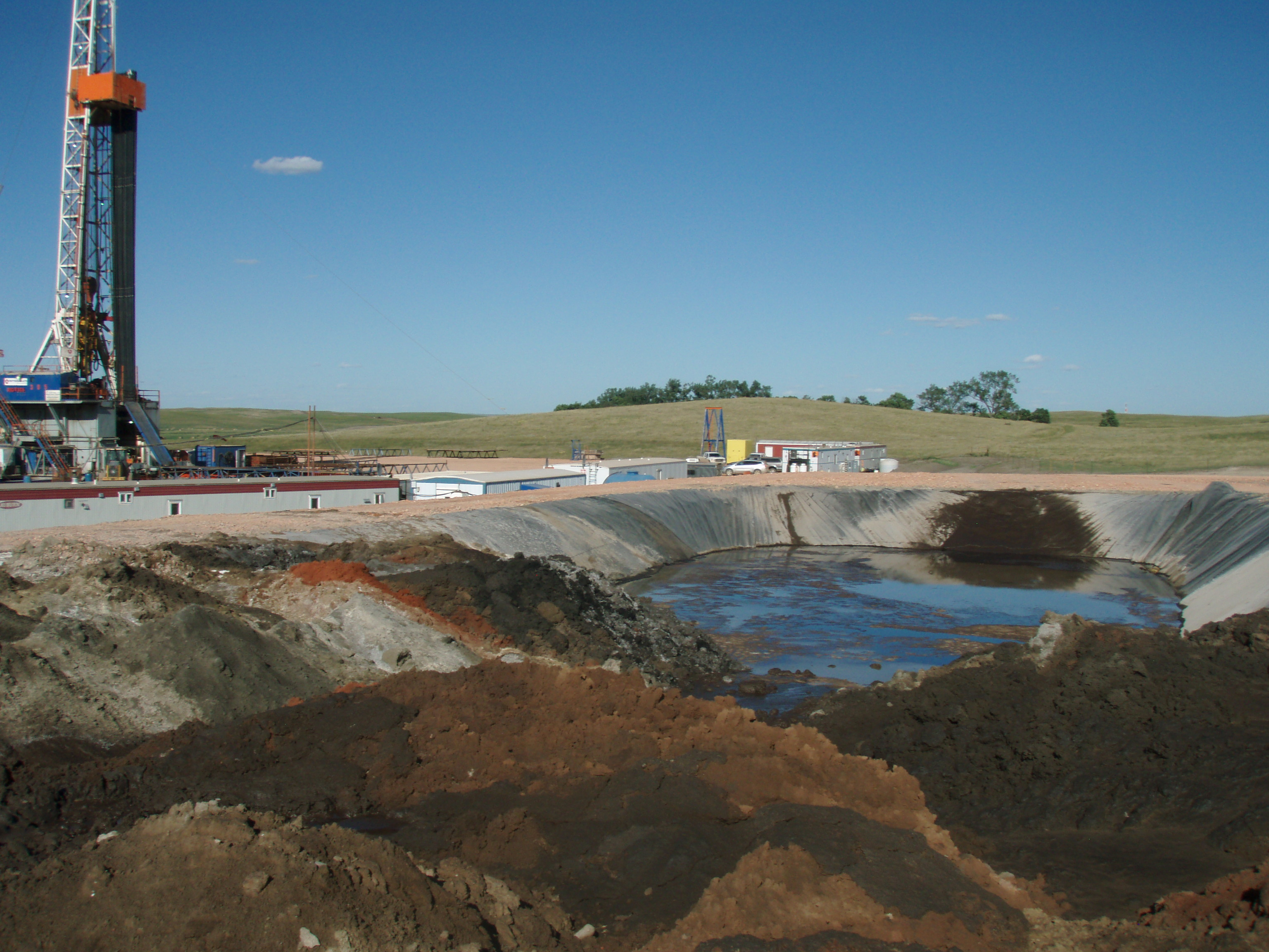 Mud Pitt sith Fly Ash